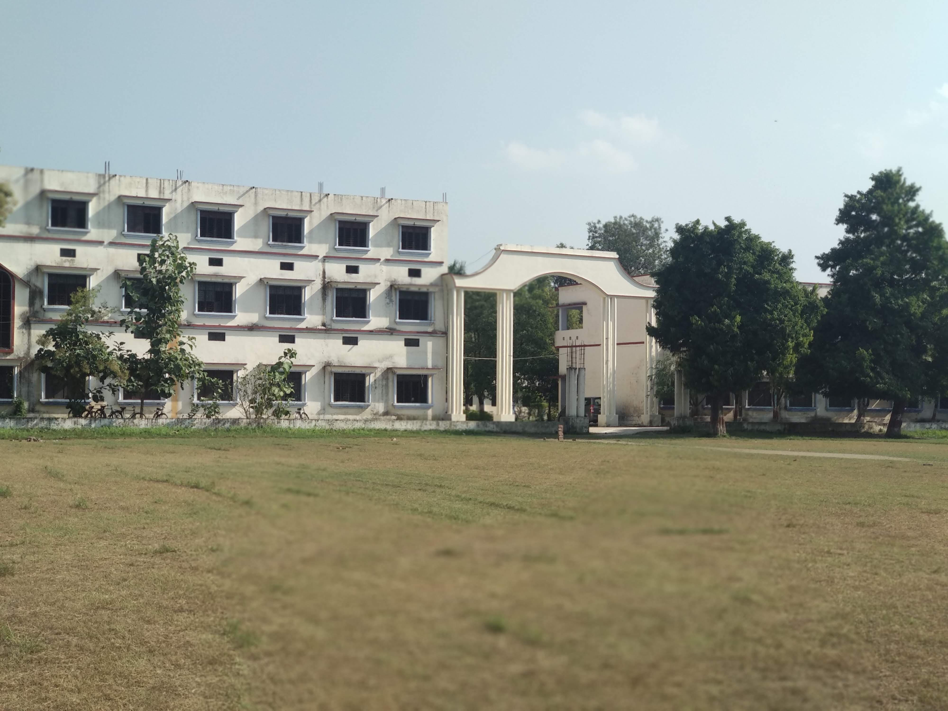 Kisan Degree College (KDC) Bahraich .Main Buliding